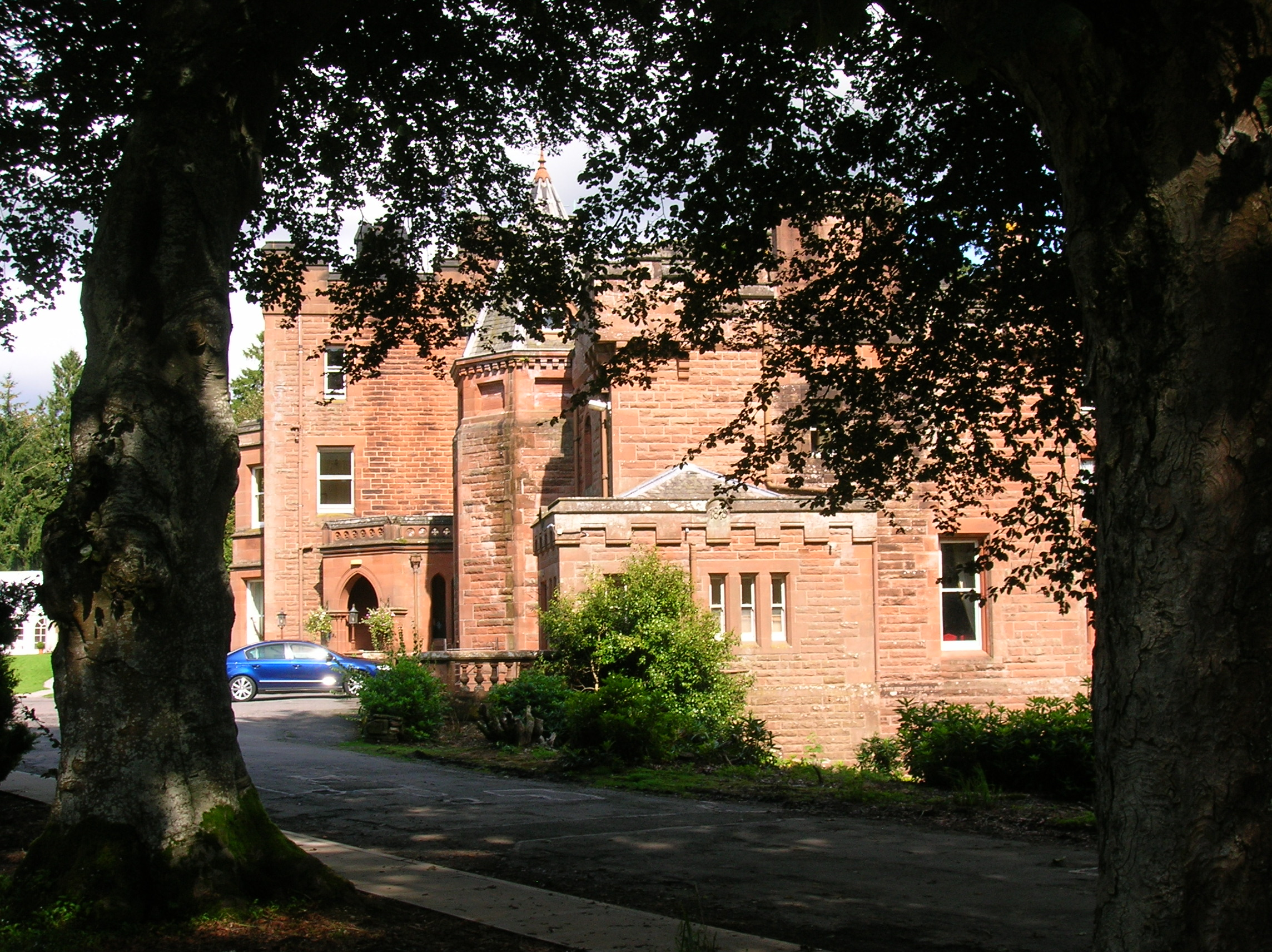 Friars Carse hotel, Auldgirth, Scotland